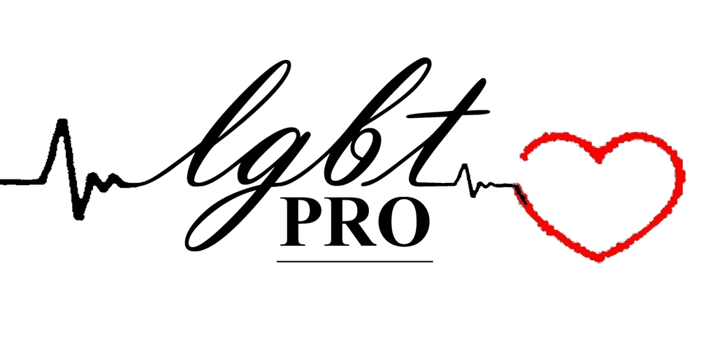 This file contains the official logo of the Albanian NGO named "Pro LGBT Albania".